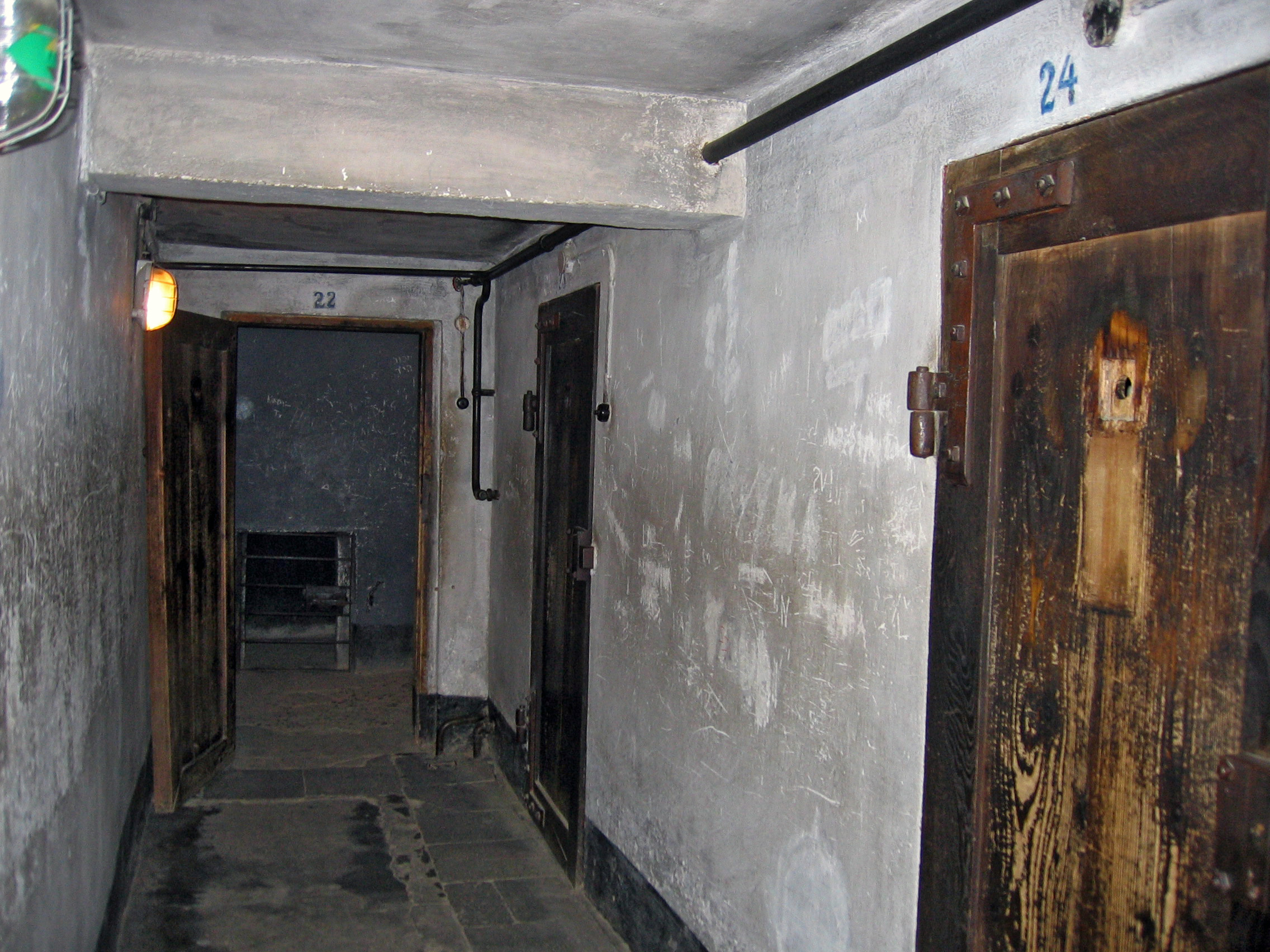 Block 11 at Auschwitz I, in the background the small door prisoners used to enter the "standing cell". There wasn't enough room to sit, as many four inmates would be confined in one standing cell.